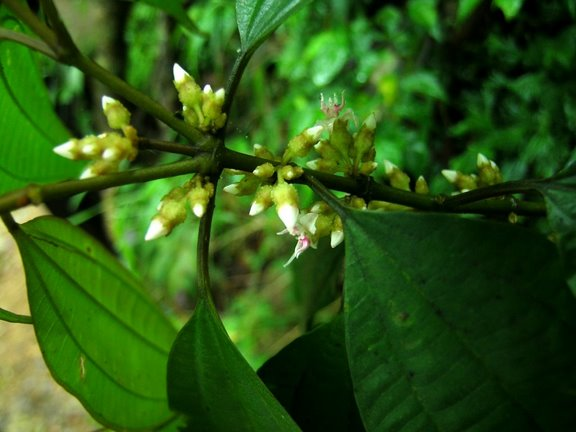 Blastus cochinchinensis flowers